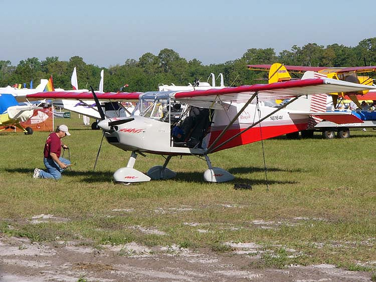 Best Off Aviation Skyranger being tied down at Sun n Fun 2006. I took this photo at Sun n Fun 2006